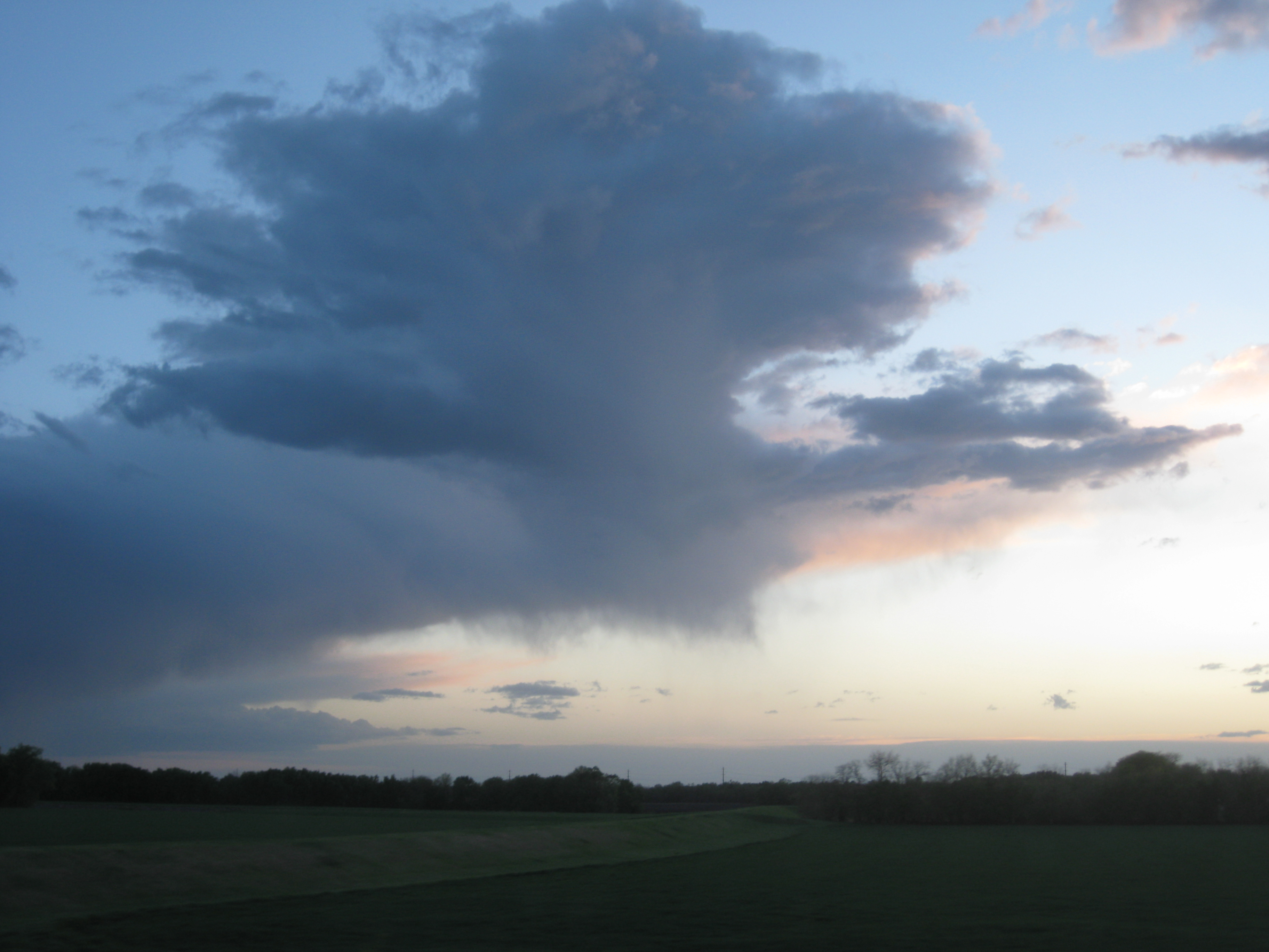 Virga at sunset in Saline County, Kansas.